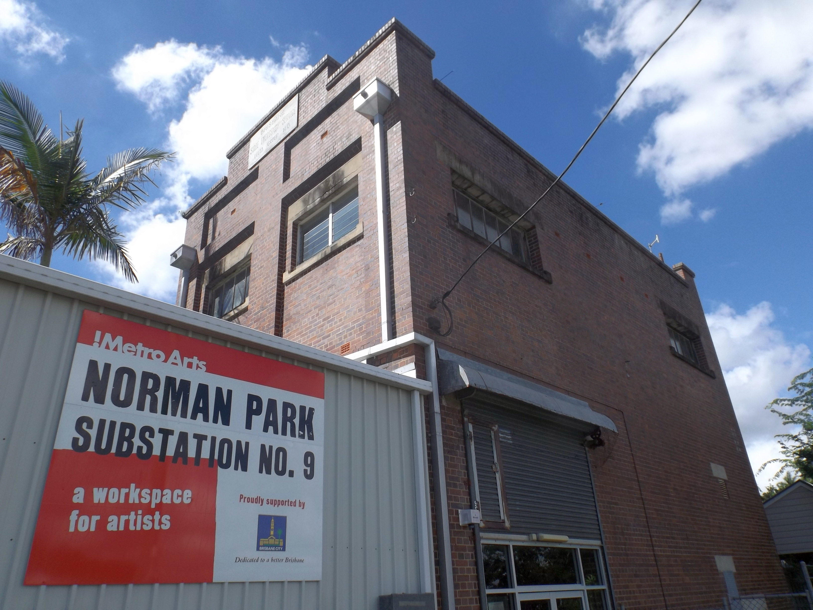 Photo of Brisbane City Council Tramway Substation No 9 at Norman Park, Brisbane, Queensland, Australia.